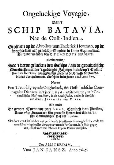 This is the title page of the 1647 Dutch book Ongeluckige voyagie, van't schip Batavia ("Unlucky voyage of the ship Batavia").